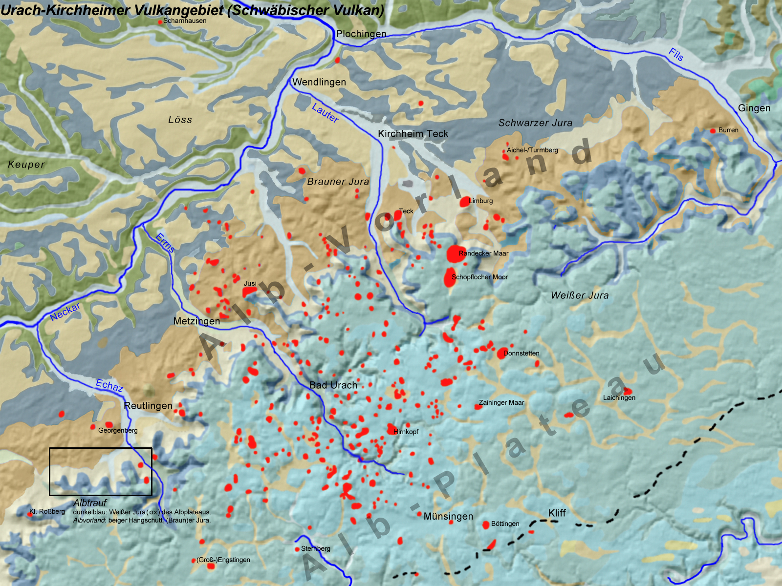 So called „Schwäbischer Vulkan“ (Swabian volcano) of the „Urach-Kirchheimer Vulkangebiet“. The 355 eruption points were active in Miocene only (17-11 Mill. years). Except for a few of the diatremes all belong to the phreatomagmatic eruption type, which does not produce lava. After this long time only very few volcanoes still shape the landscape. With geophysical measuring methods the number of eruption points was almost doubled by 1974.